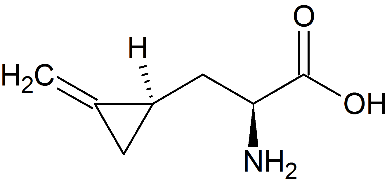 L-Hypoglycine